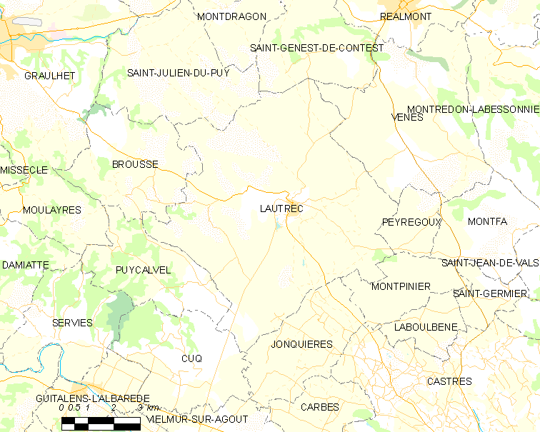 Map of French municipality Lautrec